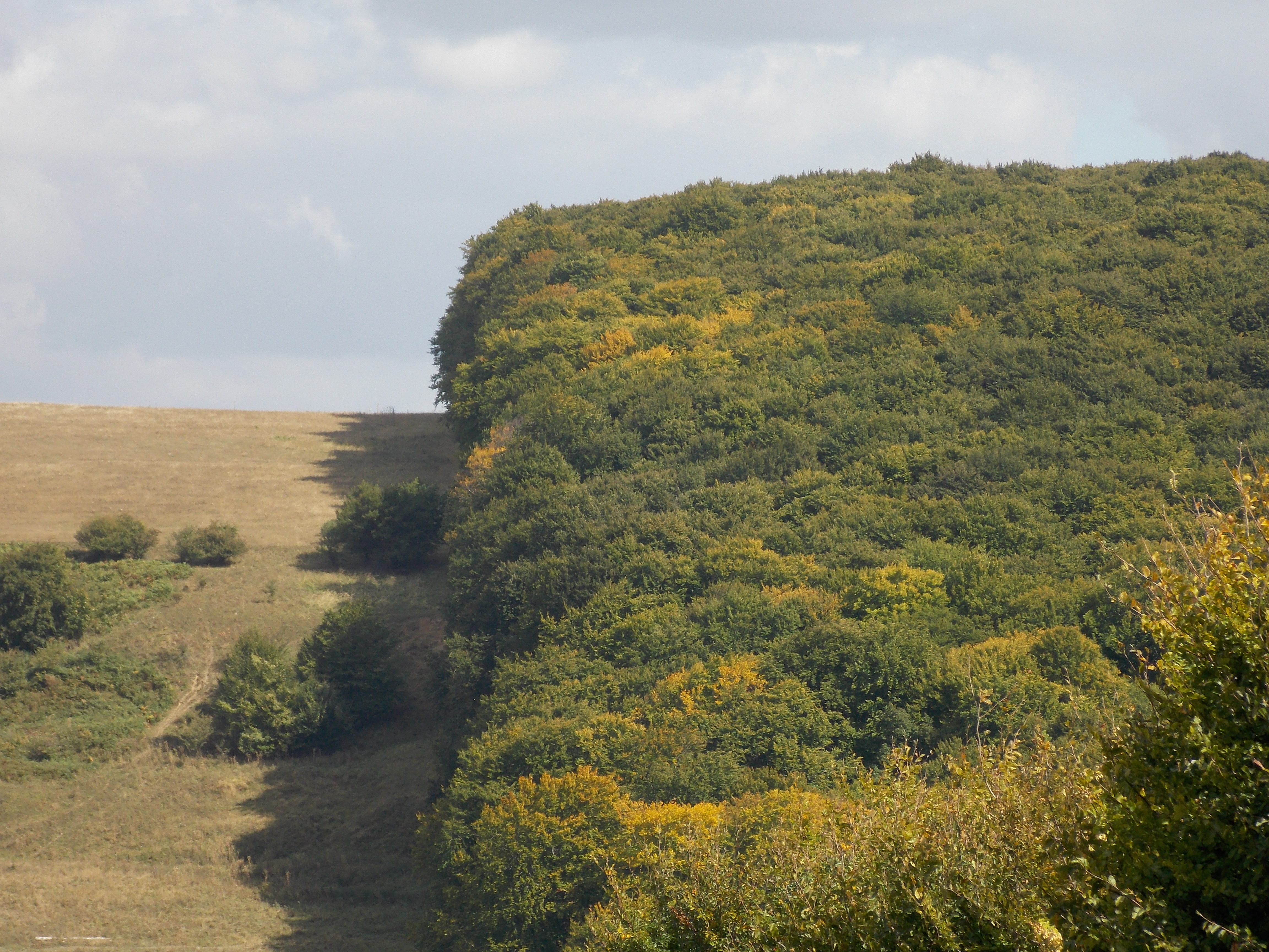 Runc Forest (Nature Reserve), Neamț and Bacău counties, Romania